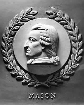 George Mason marble bas-relief, one of 23 reliefs of great historical lawgivers in the chamber of the U.S. House of Representatives in the United States Capitol. Sculpted by Gaetano Cecere in 1950. Diameter 28 inches in diameter.